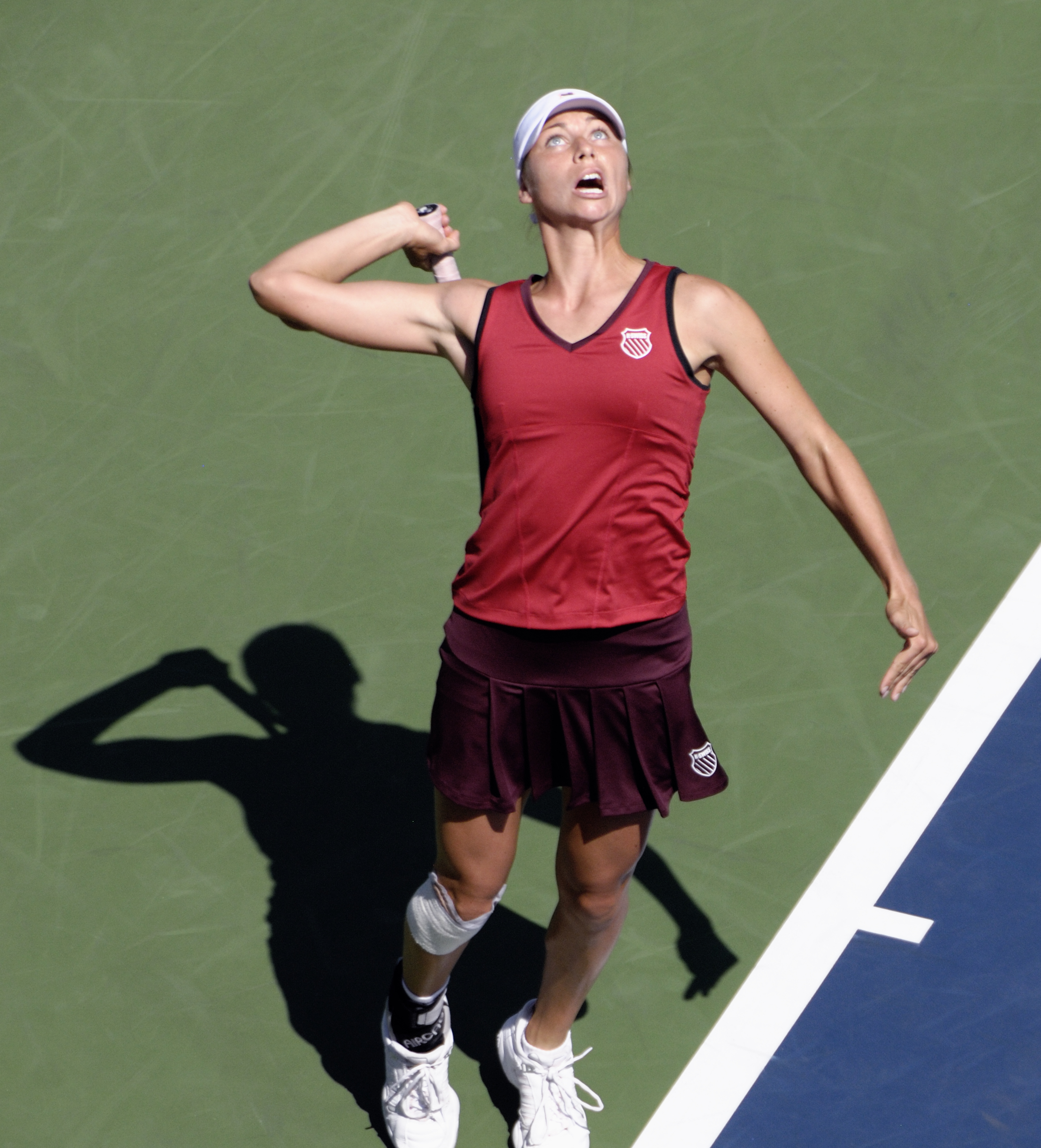 Vera Zvonareva at the 2009 US Open